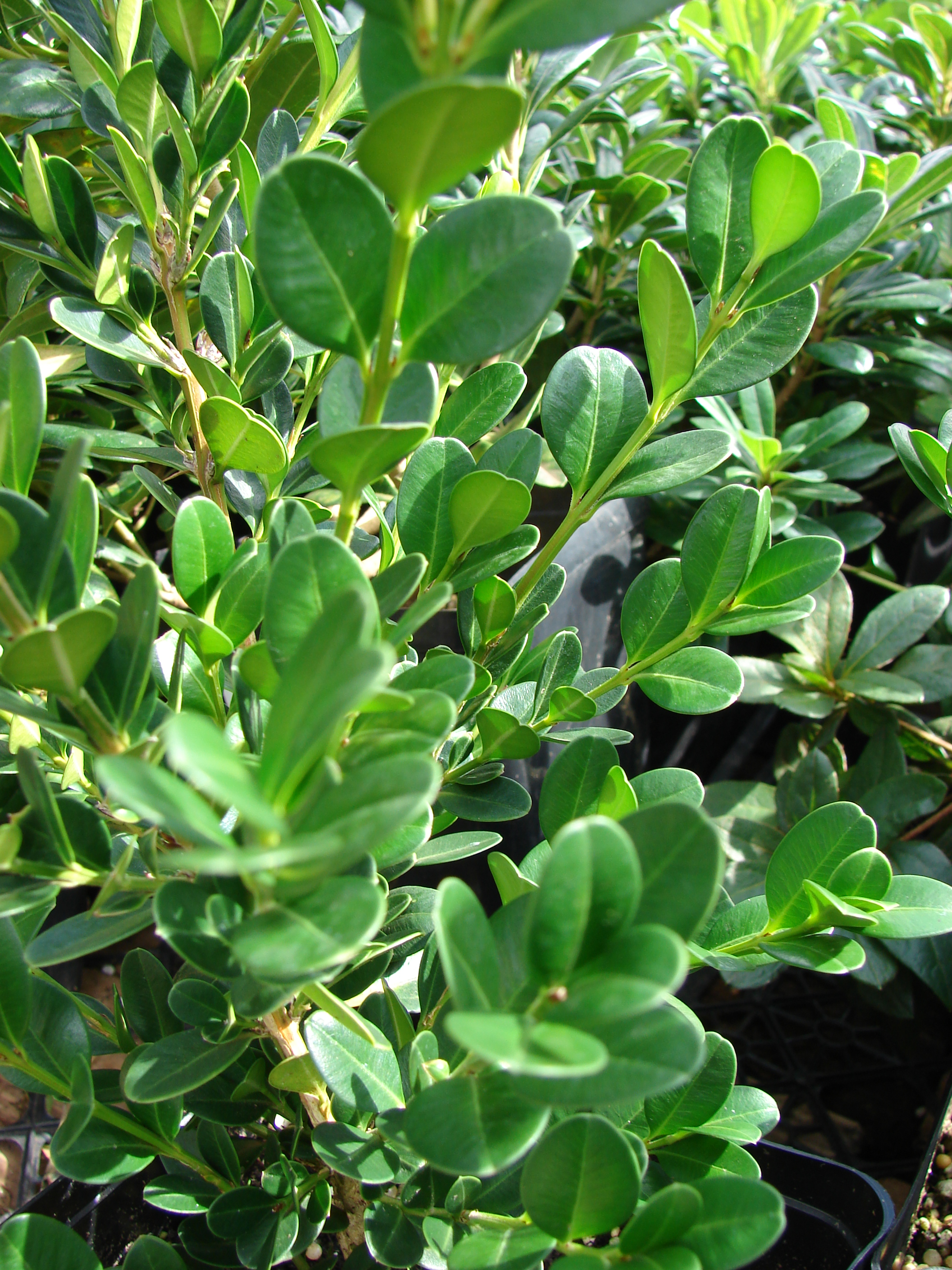 Buxus microphylla var. japonica (habit). Location: Maui, Home Depot Nursery Kahului